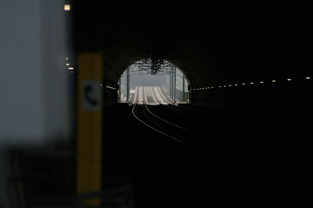 A view on the Dickheck Tunnel with lighting and SOS-phone (yellow, in front, on the left)